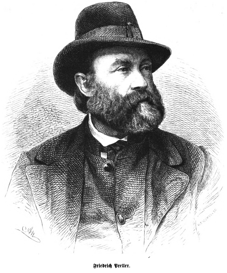 caption: "Friedrich Preller."